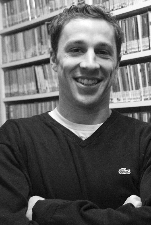 US Soccer player Steven Cherundolo (2006)